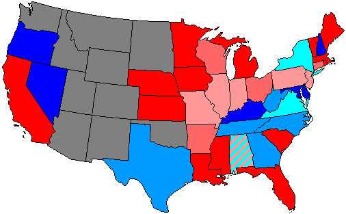 Summary of party control of U.S. house seats in the 42nd United States Congress following election. Stripes indicate a tie between two or more parties. Legend: 80.1-100% Democratic seat majority 60.1-80% Democratic seat majority 60% or less Democratic seat plurality 60% or less Republican seat plurality 60.1-80% Republican seat majority 80.1-100% Republican seat majority